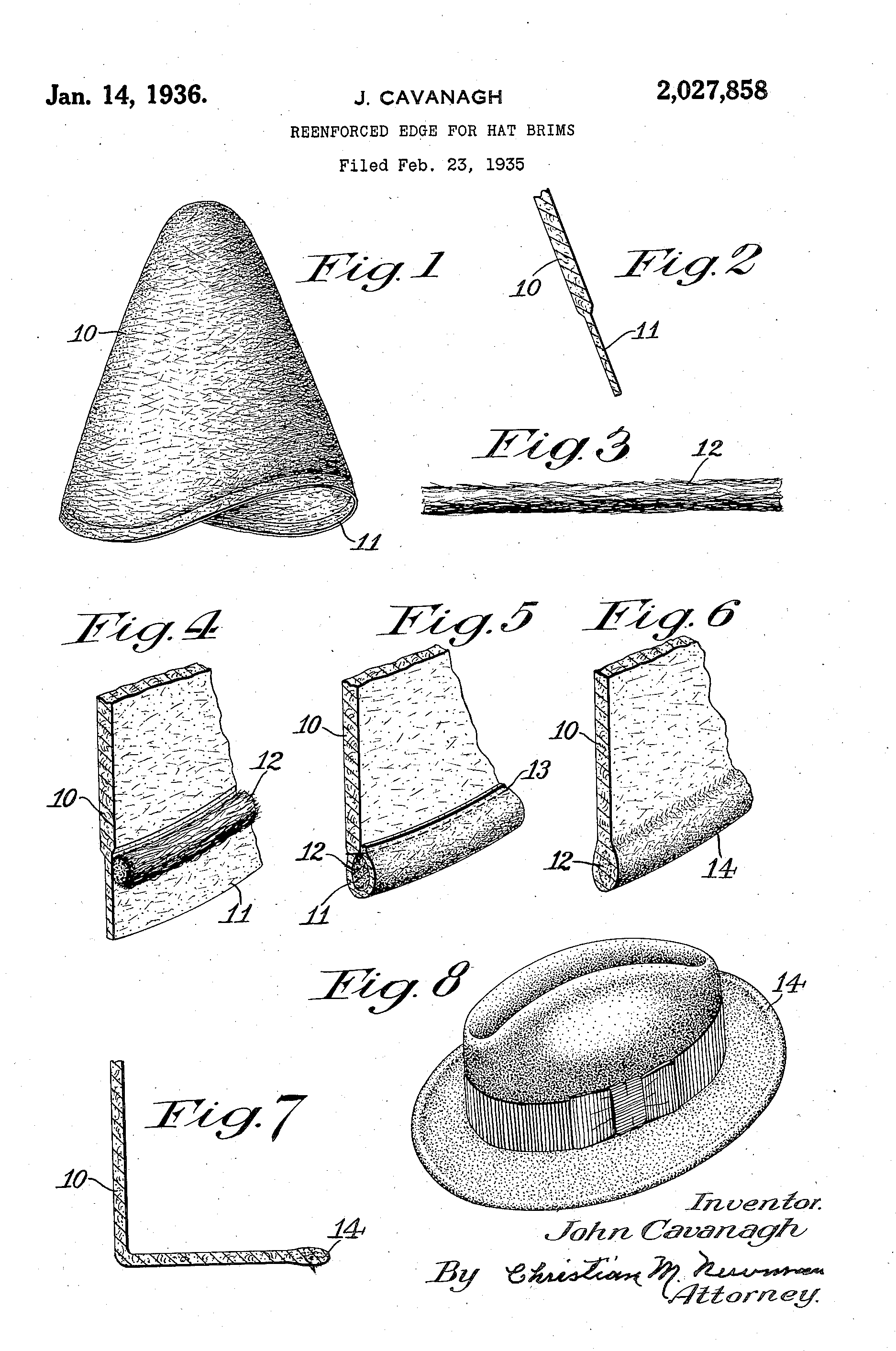 Original patent for John Cavanagh's method of finishing hat brims known as the Cavanagh Edge.